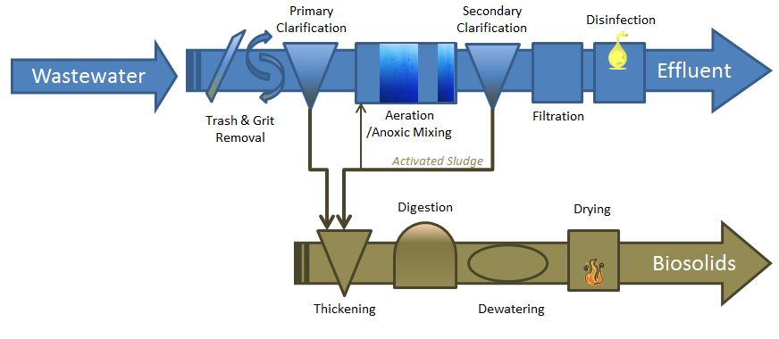 Simple schematic of the wastewater treatment process at the TPSWRF in Tallahassee, FL.